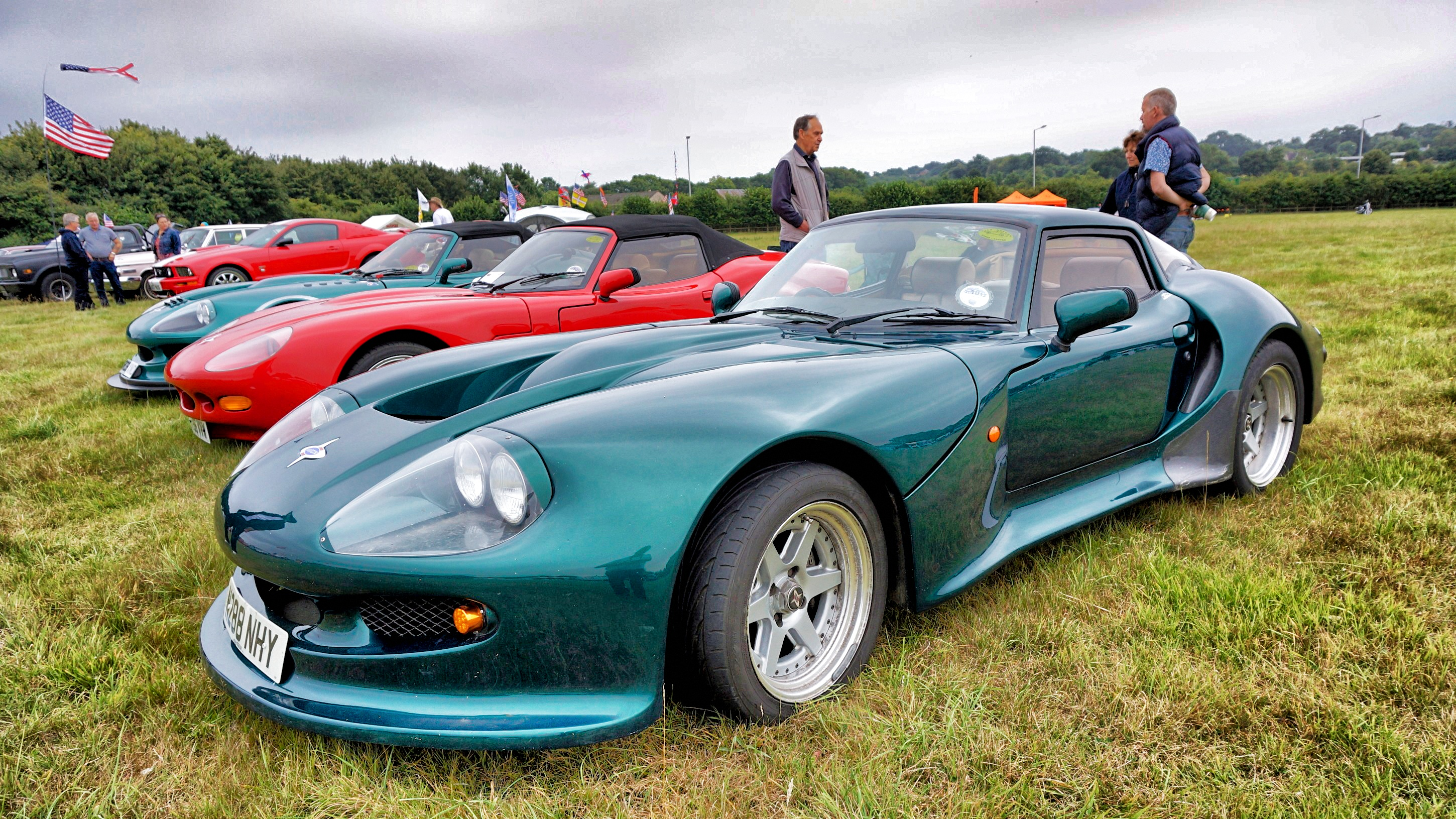 The annual Can-Am Car Club show at Wimborne. A celebration of all things "Automotive and American" plus a few British cars thrown in for good measure. Marcos - a fine British sportscar.